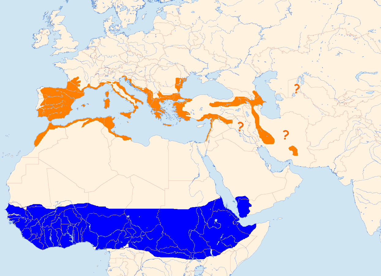 Lanius senator - Range Map